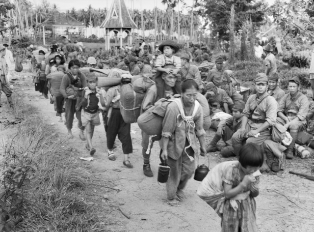 JAPANESE PRISONERS OF WAR (POWS) AND CIVILIAN WOMEN AND CHILDREN PRIOR TO EMBARKATION FOR JESSELTON.